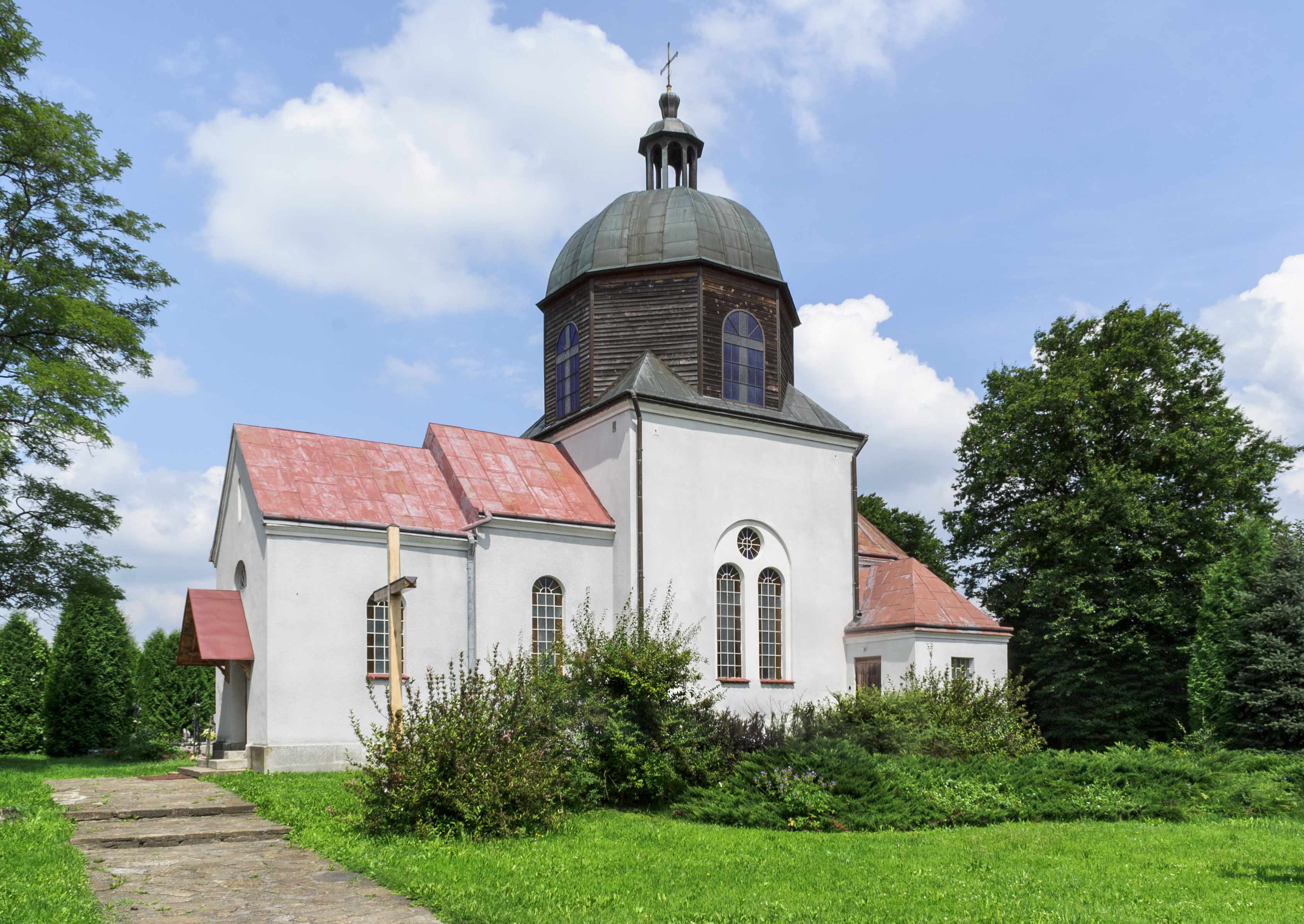 Saint Martin church in Chołowice, Poland.